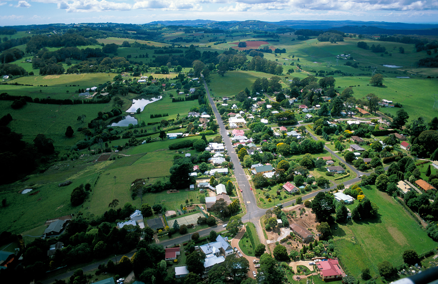 Aerial view of the rural community of Burrawang in the Wingecarribee Catchment, south of Sydney, NSW. 1999.